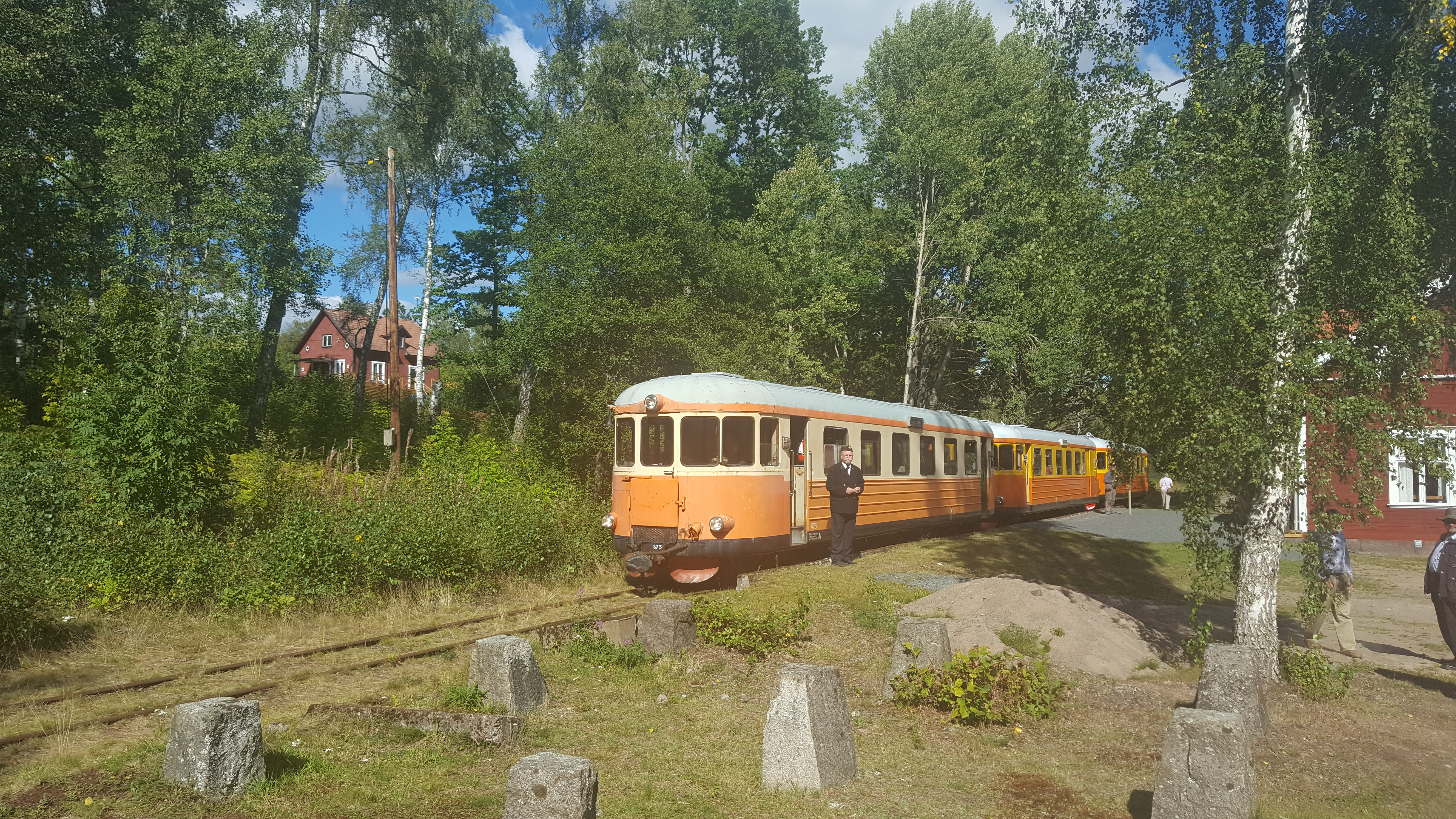 A train stop in Mosstorp, Sweden, on a remaining portion of a Växjö–Åseda–Hultsfred narrow-gauge railway.